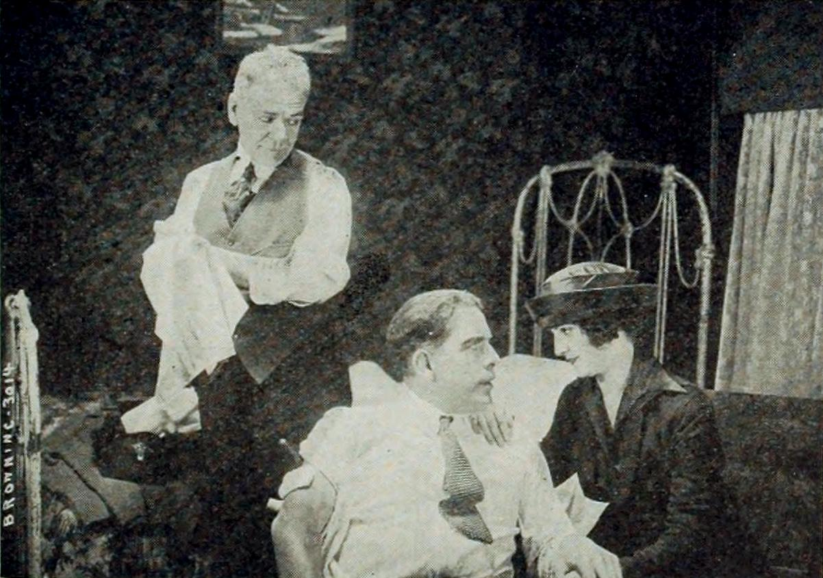 Still from the American film The Wicked Darling (1919) with an unidentified actor, Wellington A. Playter, and Priscilla Dean, on page 877 of the February 15, 1919 Moving Picture World.